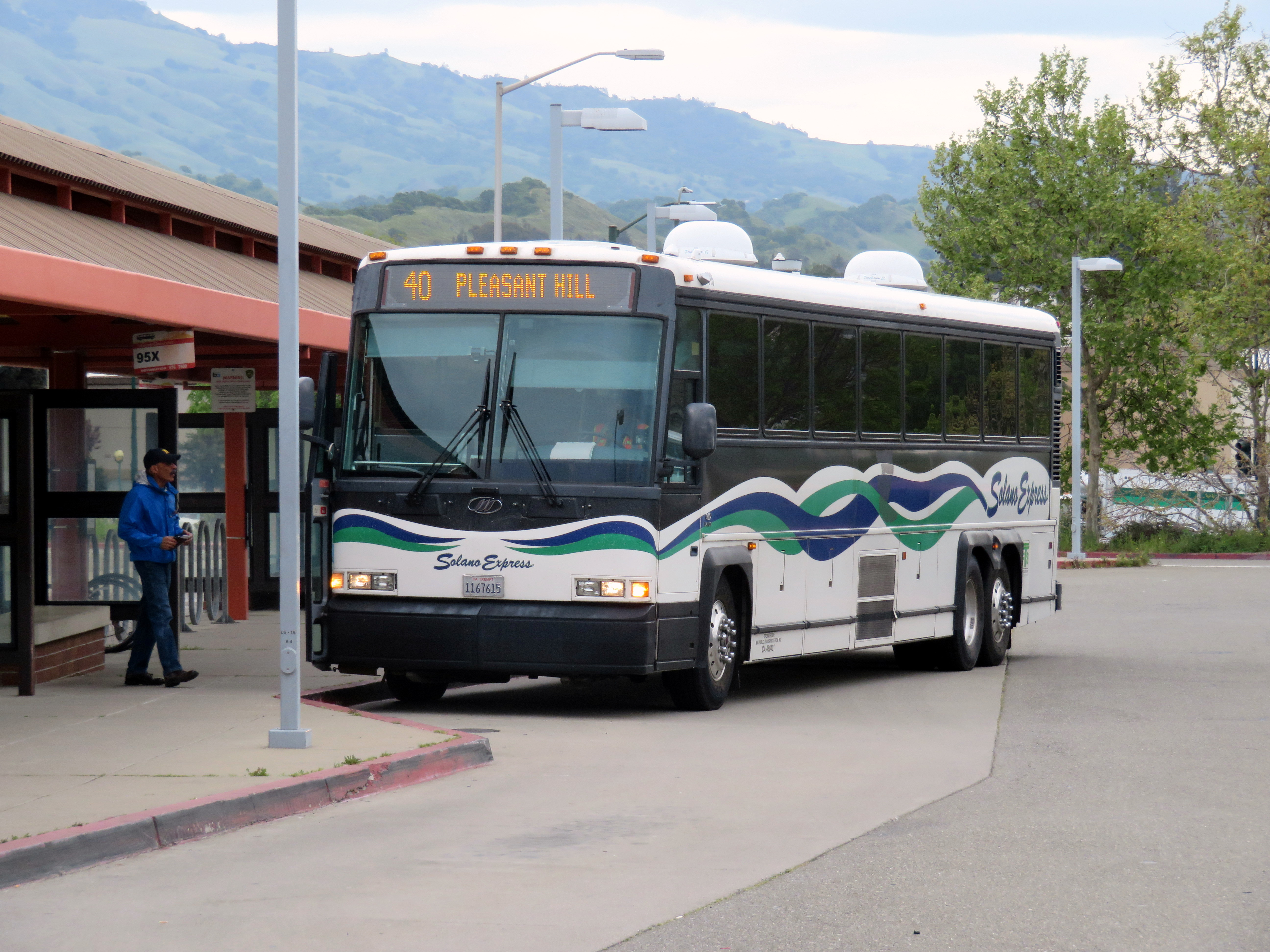 SolanoExpress route 40 bus, run by FAST, at Walnut Creek station in April 2018